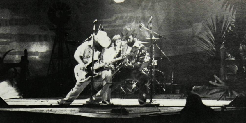 Southern rock band ZZ Top.